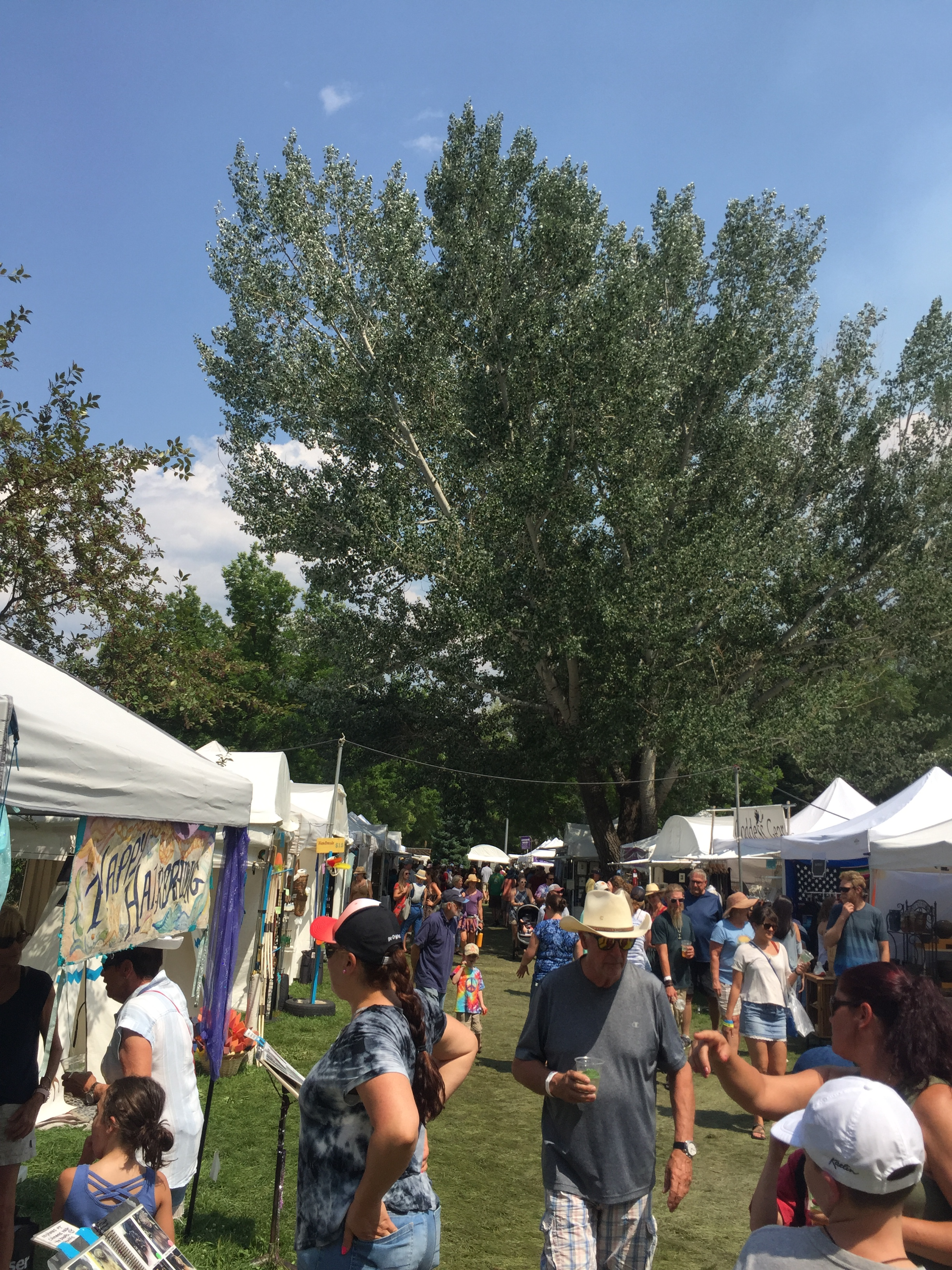 This photo shows one of multiple rows of art vendors at the 47th Mountan Fair